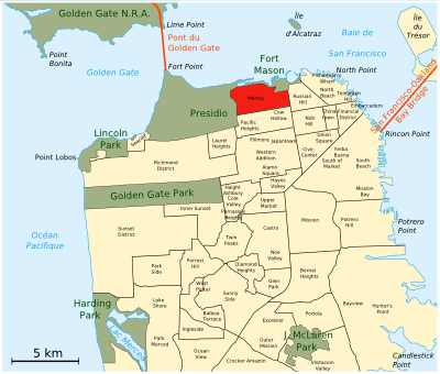 Map of Marina District, San Francisco, California, USA